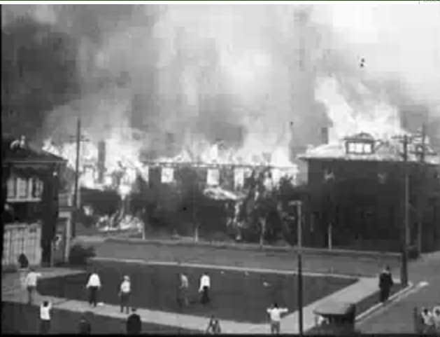 A frame from this newsreel of the September 17, 1923 fire in Berkeley, California, which wiped out 650 homes before the wind turned and saved both the town and the university. The newsreel is from the Prelinger Archives collection at the Internet Archive.